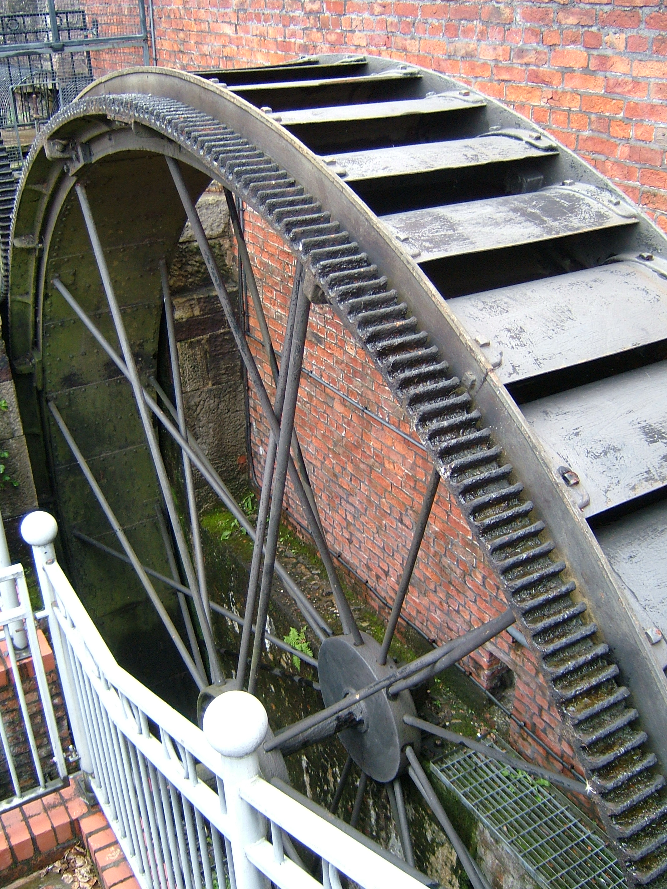 The hoists at the warehouse at Portland Basin, on the Ashton Canal in Ashton-under-Lyne, Tameside, were driven by an external waterwheel, the power was taken off the teethed rim. Bevelled gears, and a shaft took the power into the building.